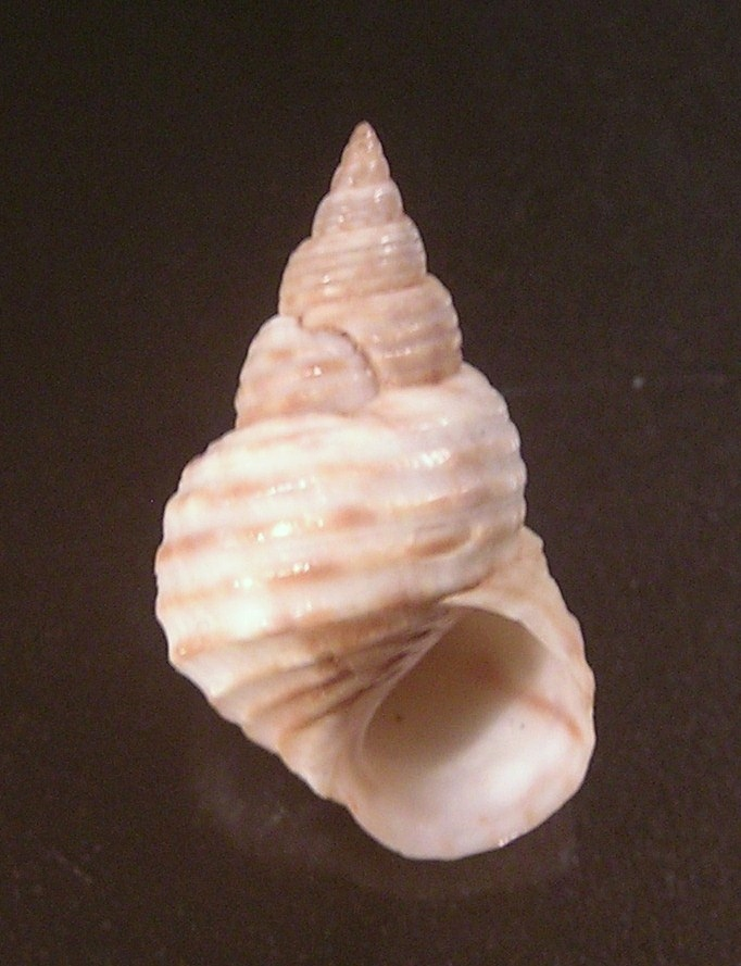 Littoraria cingulata Philippi, 1846, a periwinkle from the family Littorinidae